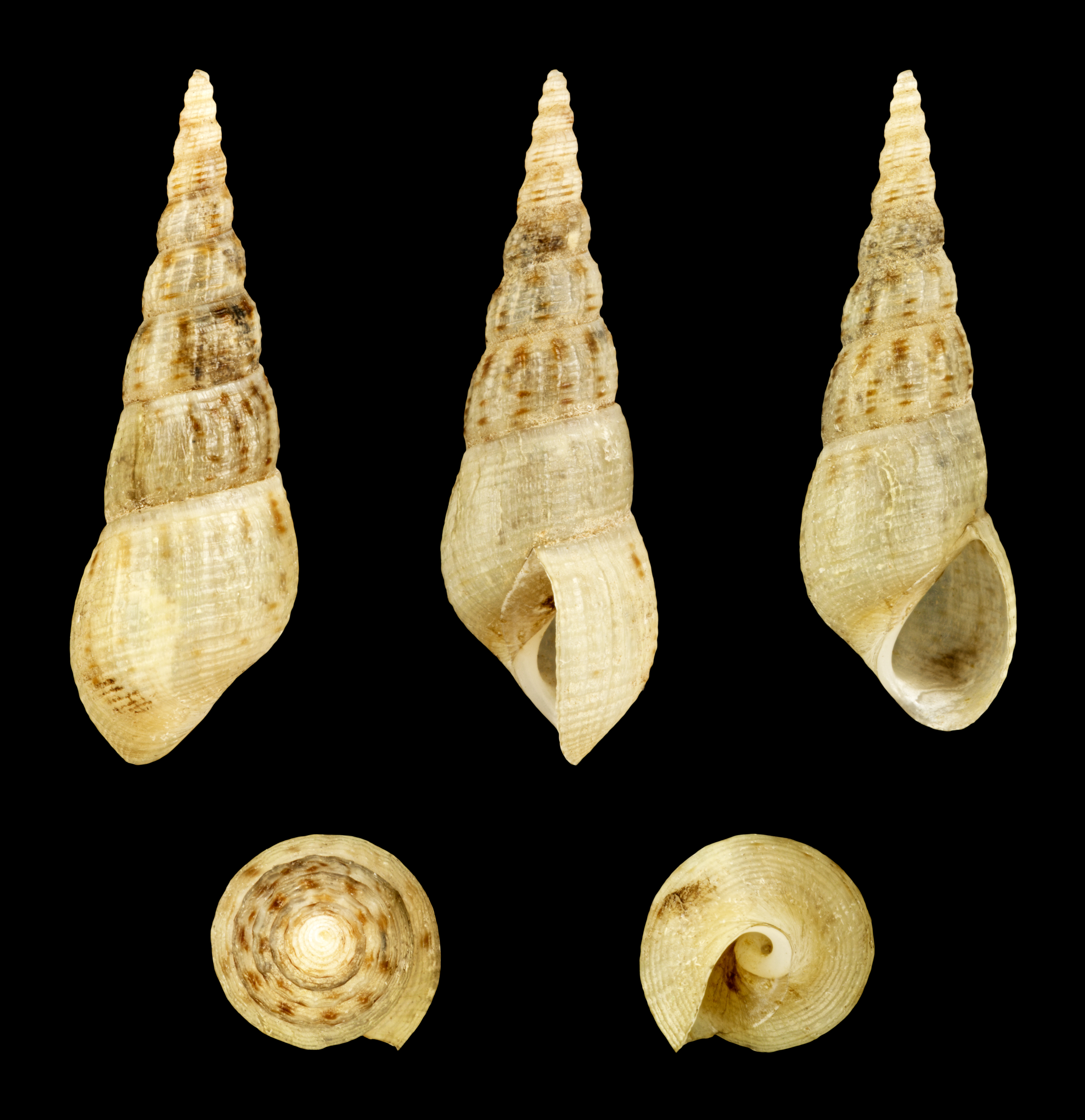 Melanoides tuberculata (Müller, 1774), Red-rimmed Melania; Length 2.4 cm; Aquarium breeding; Natural distribution: East Africa to Southeast Asia. Shell of own collection, therefore not geocoded.